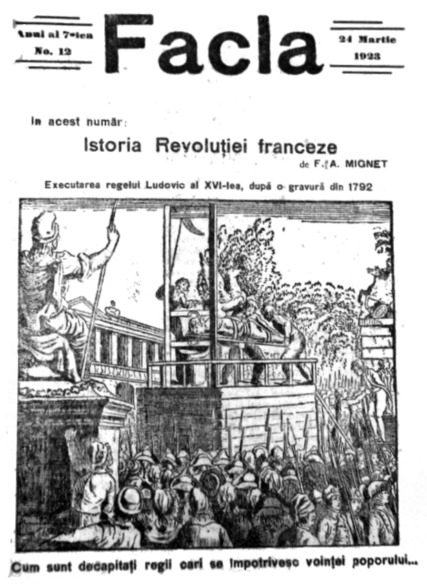 Cover of the left-wing republican Facla magazine, with the message Cum sunt decapitați regii cari se împotrivesc voinței poporului... ("How they decapitate kings who oppose the people's wishes..."), a veiled warning to Romania's King Ferdinand from editor N. D. Cocea. The period engraving is introduced as showing the execution of Louis XVI of France in 1792; in reality, it depicts the mass execution of Girondin leaders in 1793 (see La fournée des Girondins). The issue also featured a translation from François-Auguste Mignet, which is also advertised.